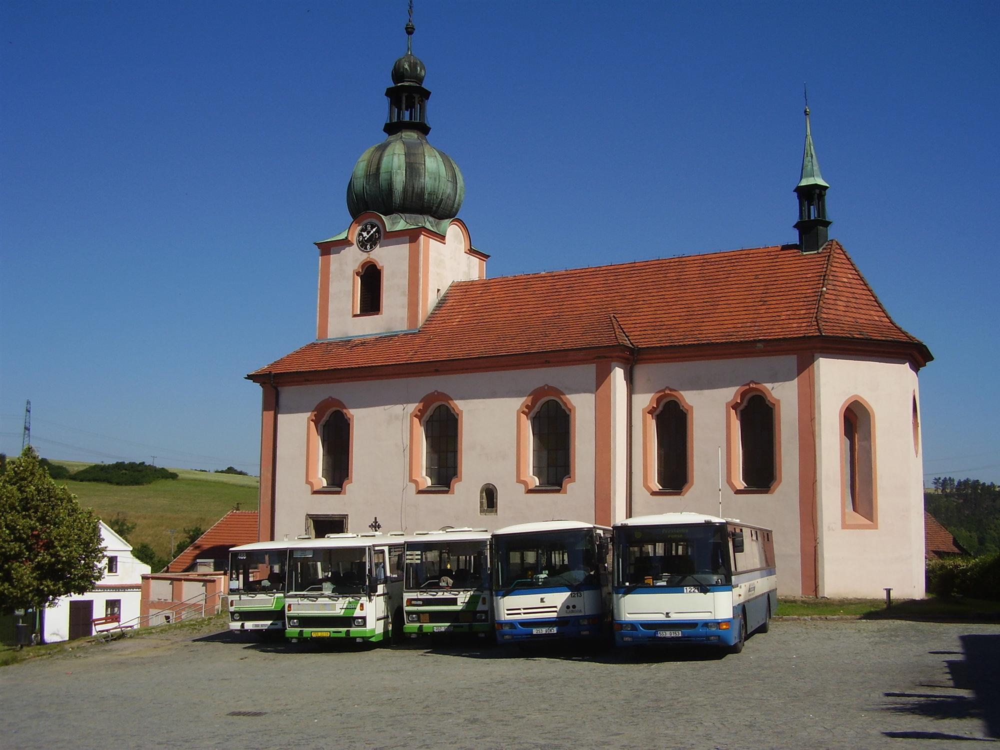 St. Nicholas church and buses at square in Nový Knín